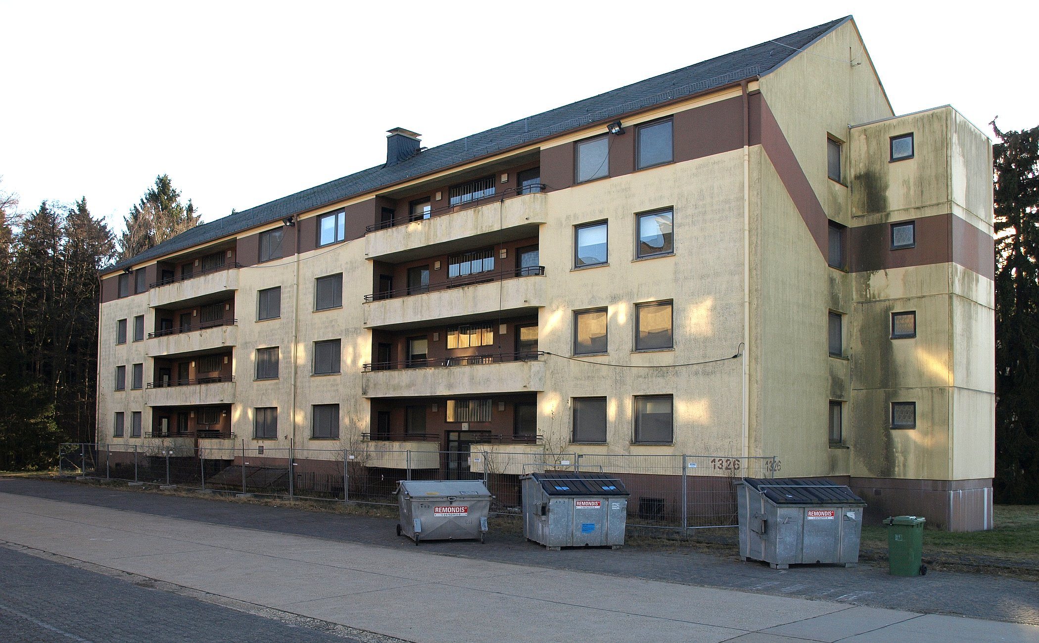 Family Housing der USAF Büchenbeuren / Airport Hahn